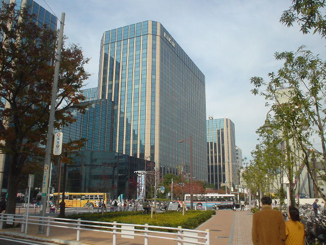 District of Ōmori, headquarters of Isuzu